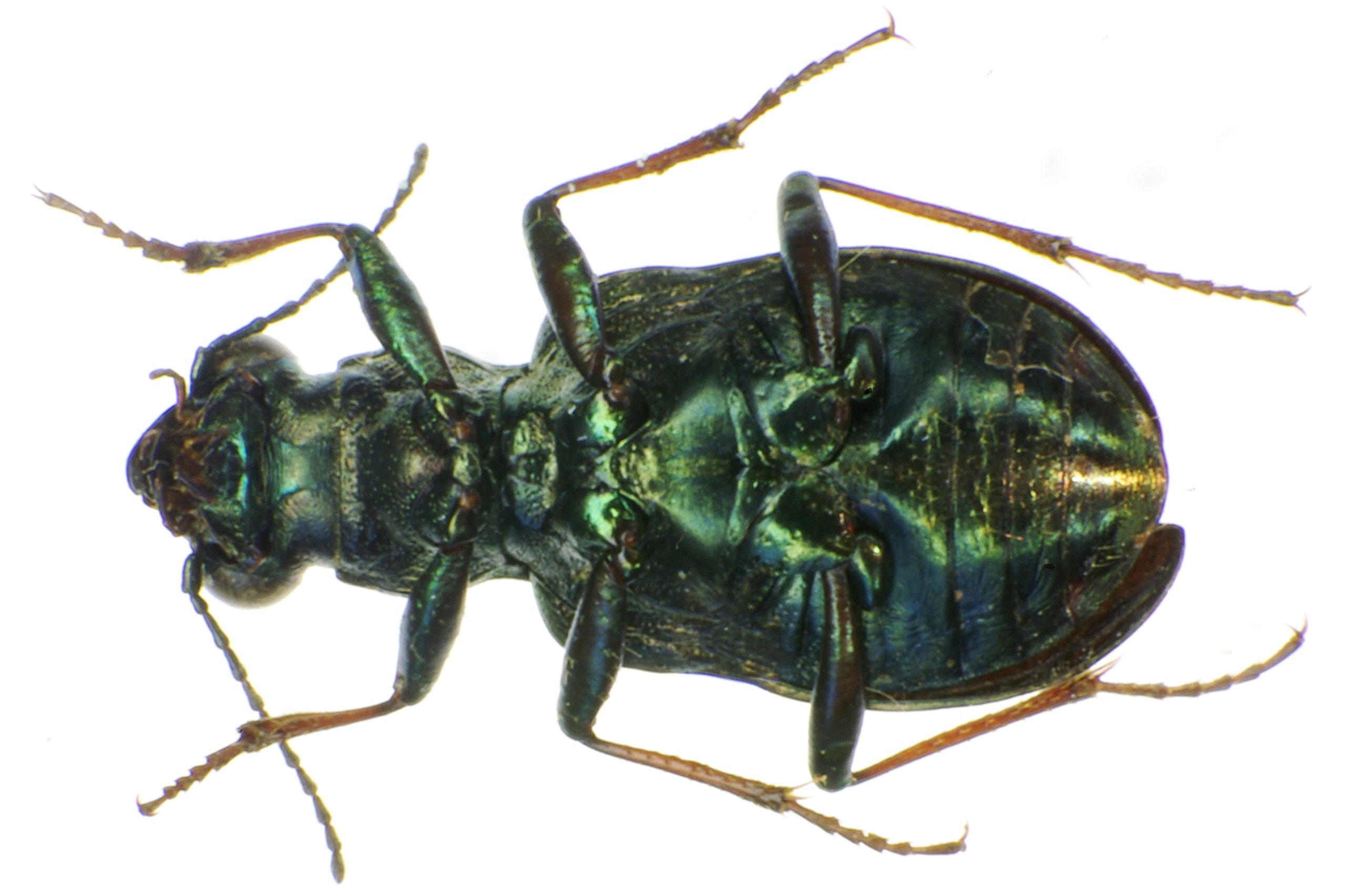 Underside of Elaphrus cupreus